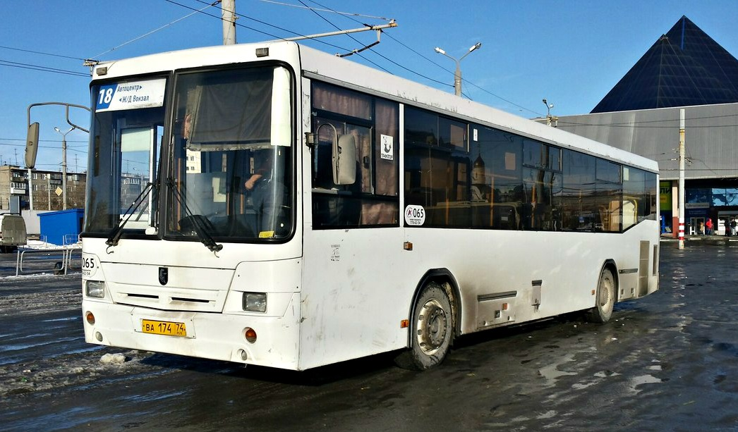 NefAZ 5299 bus in Chelyabinsk, Russia